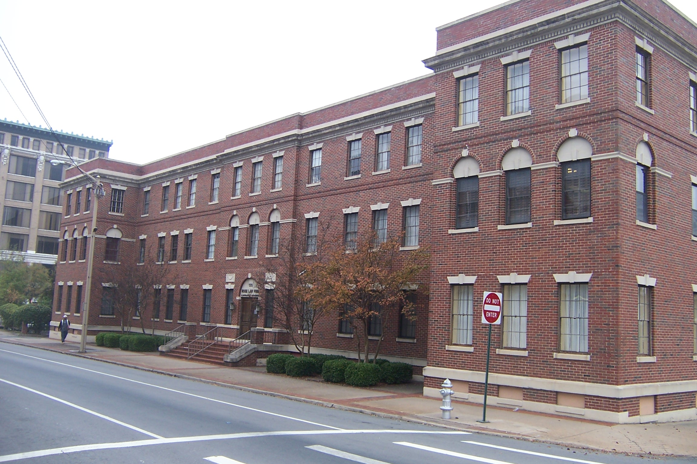 Older building of Rose Law Firm in Little Rock, Arkansas.